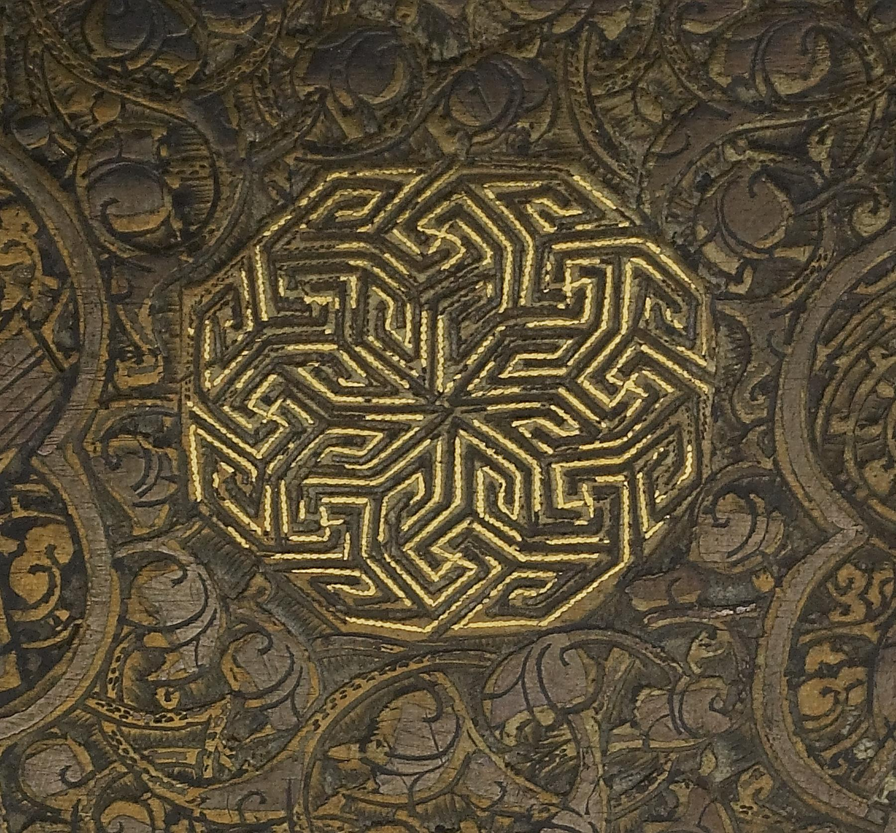 In a notable artistic innovation, medieval Islamic artisans used precious metals- gold, silver, and copper- to decorate bronze and brass objects. The richly decorated surface of this ewer features multiple bands of Arabic inscriptions and scalloped medallions enclosing musicians, enthroned figures, hunters, and other scenes characteristic of medieval Islamic art. The presence of the artist's signature here is noteworthy since the medieval Islamic artisan generally remained anonymous. Yunus ibn Yusuf styles himself al-naqqash, or decorator, probably signifying that he was responsible for executing the inlaid designs. He also ends his name al-Mawsili, meaning "from Mosul," a famous metalworking center in northern Iraq. However, Yunus ibn Yusuf could just as easily have been working in Syria, where metal workshops produced similar inlaid vessels during the 13th century.